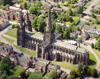 Aerial photo of Lichfield cathedral